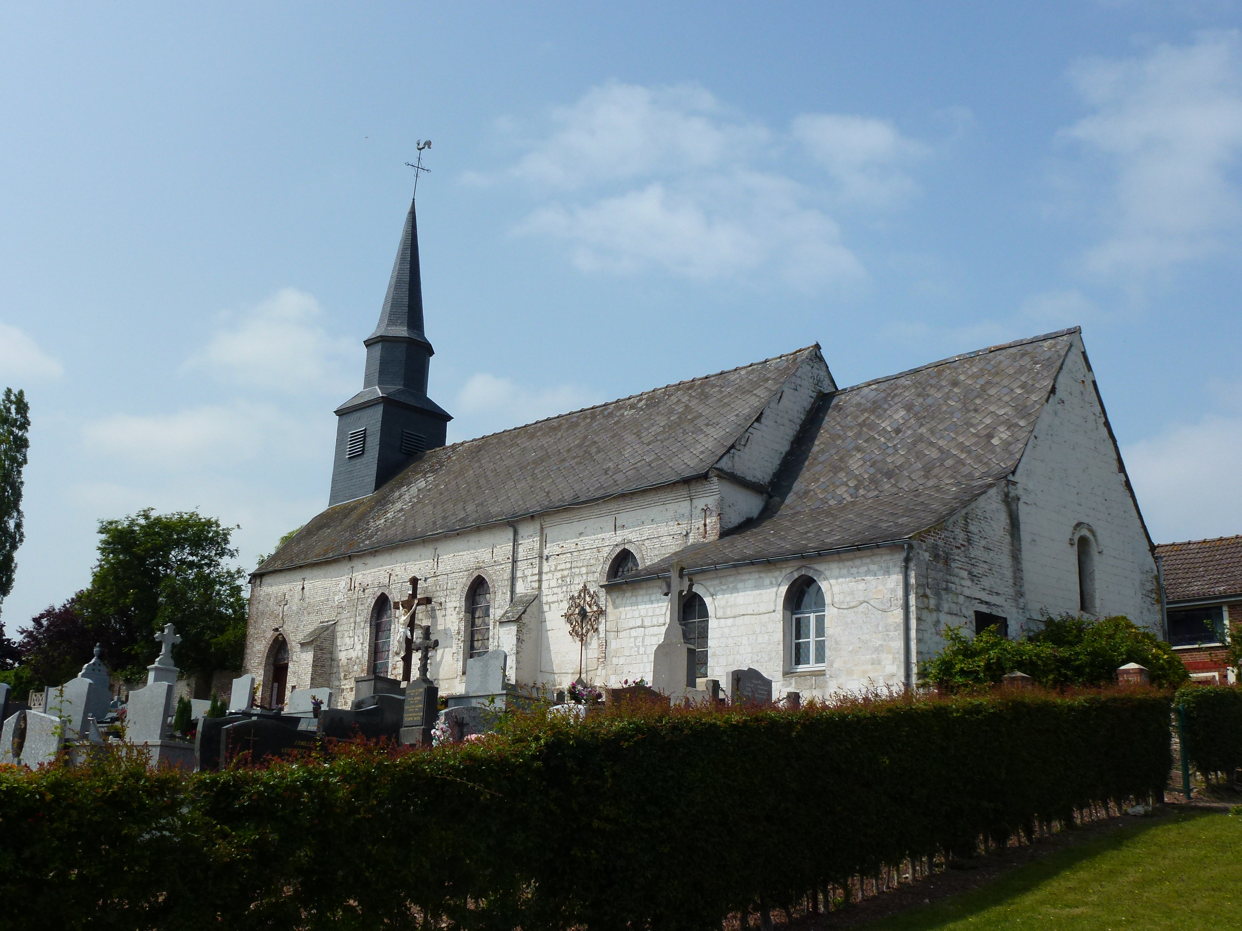 Sachin (Pas-de-Calais, Fr) église